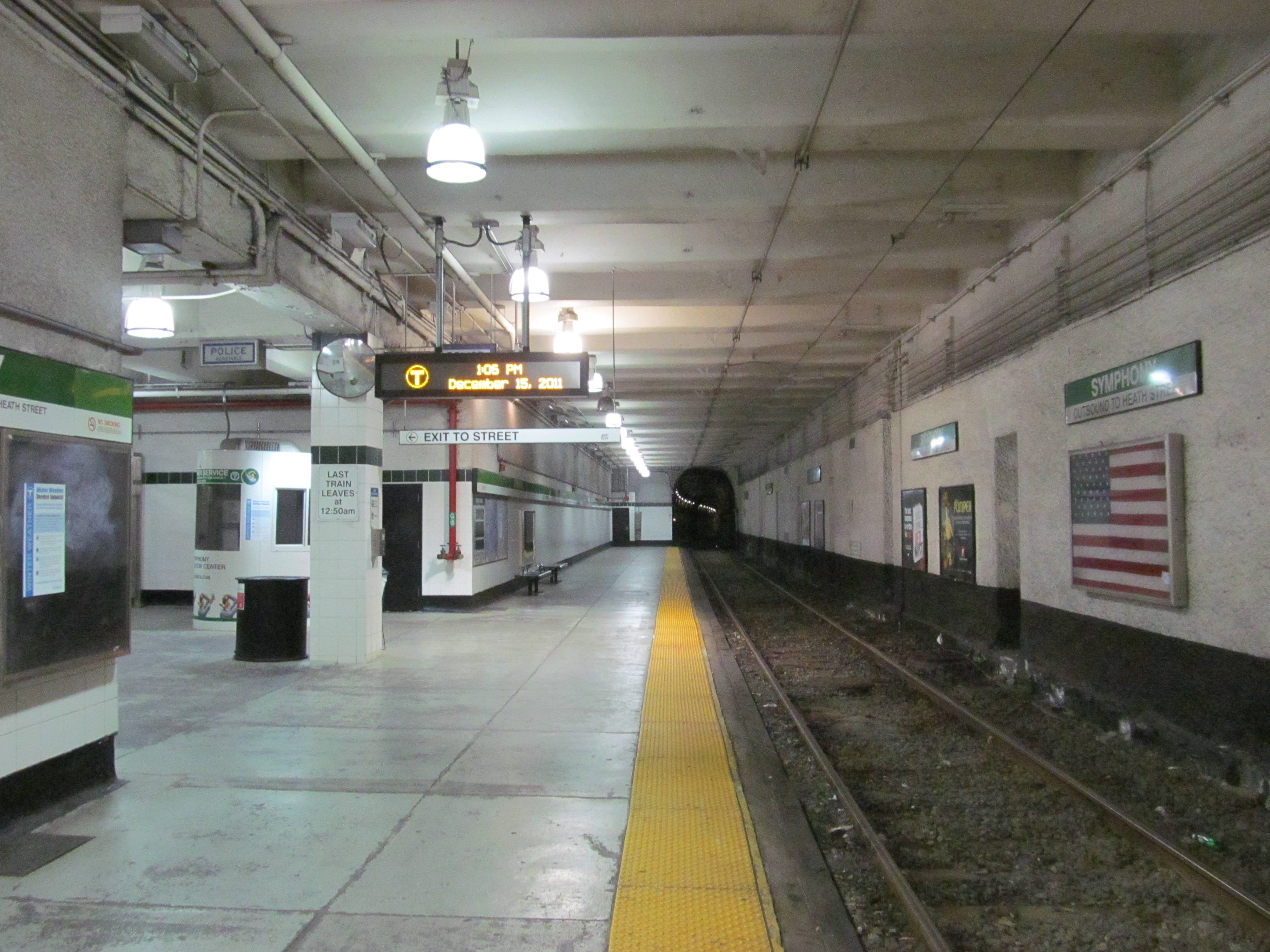 Outbound platform at Symphony station in 2011